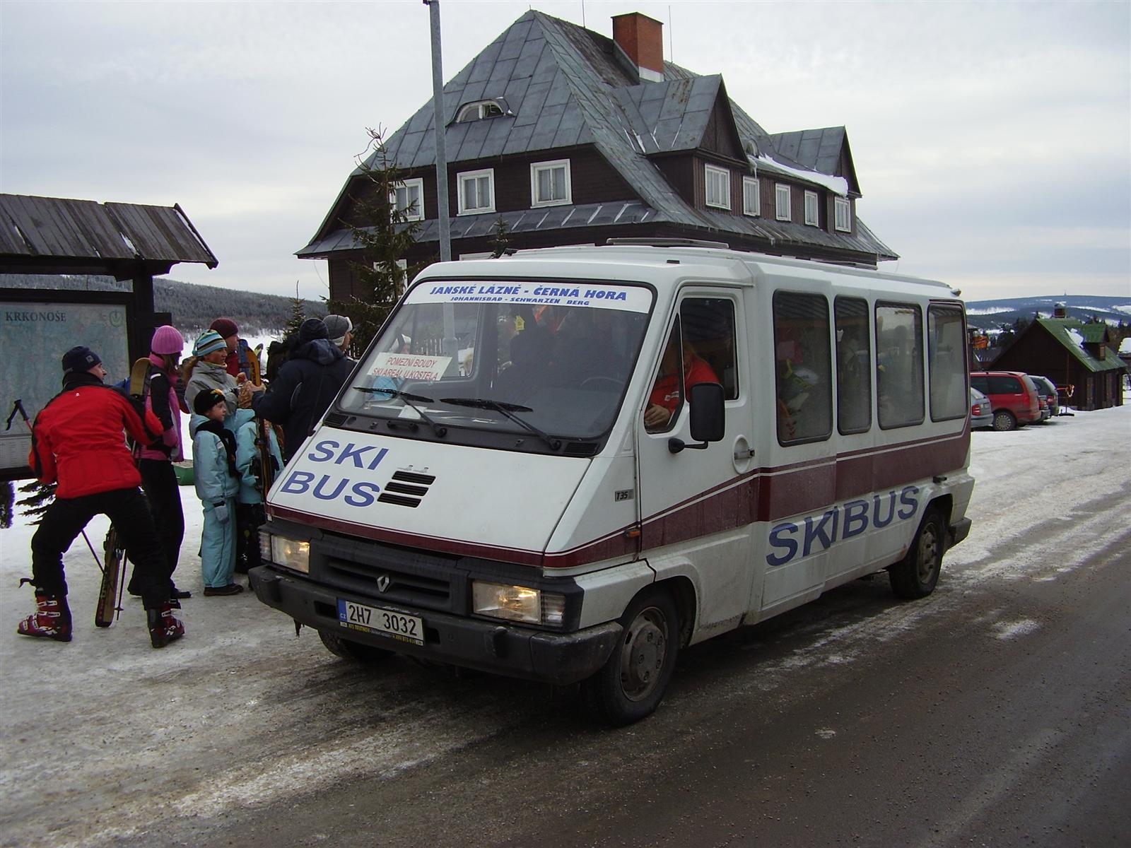 Skibus in Pomezních Bud, Krkonoše